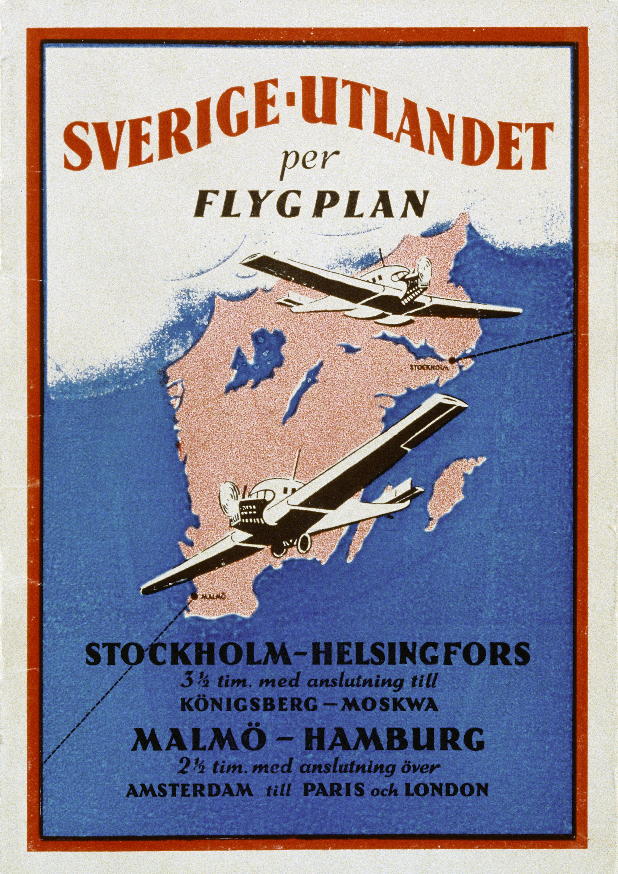 Mother company AB Aerotransport, ABA 1924-03-27. Advertisement, poster, Sweden qand abroad, Stockholm-Helsinki, Malmö-Hamburg.